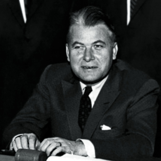 Kentucky Governor Bert T. Combs